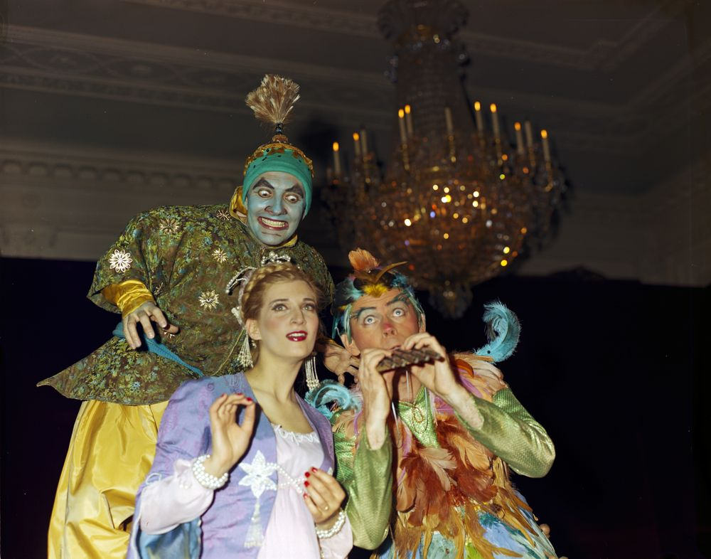 Actors perform onstage during the Opera Society of Washington’s production of Mozart’s “The Magic Flute,” following a state dinner in honor of President of India, Dr. Sarvepalli Radhakrishnan. Left to right: Robert Schmorr (back), Patricia Brooks, and John Reardon, all of the New York City Opera Company. East Room, White House, Washington, D.C.